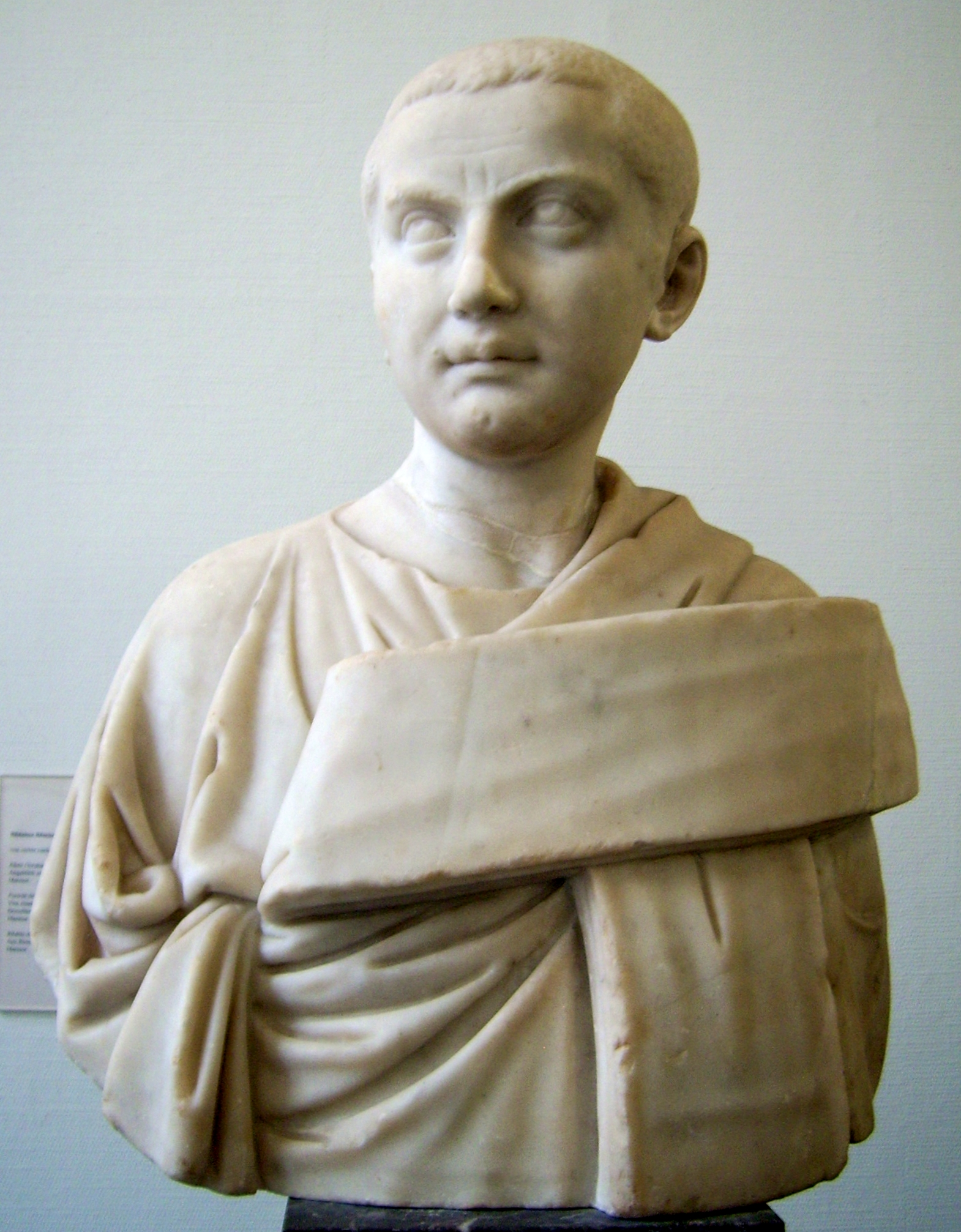 Bust of the young Roman Emperor Gordian III, now residing in the Pergamon Museum, Berlin.